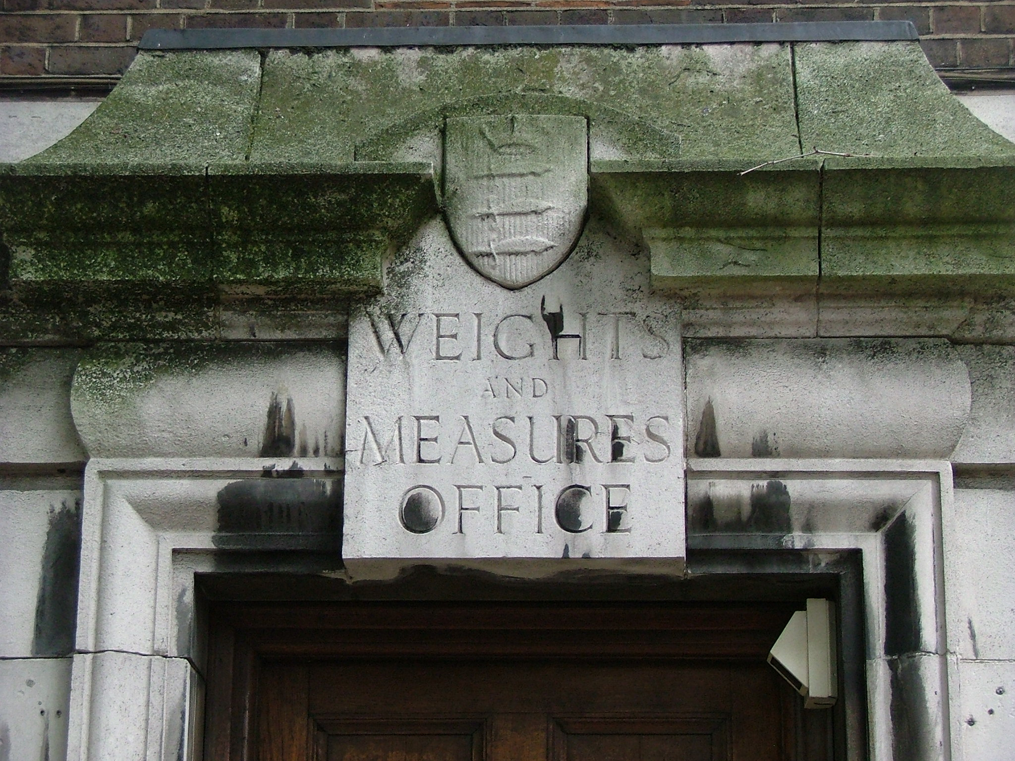 Sign of the former Weights and Measures office, Seven Sisters Road, London, England, N15 6HR. (Notice the modern security camera in the door frame).